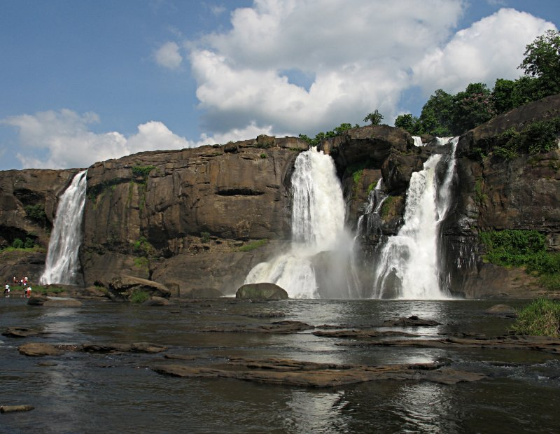 Athirappilly Falls (View from below during summer)